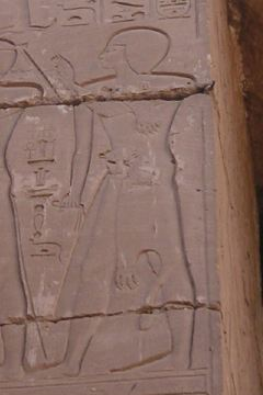 Relief depicting the High Priest of Amun Iuput, son of pharaoh Shoshenq I. Karnak, Great temple of Amun-Ra, Bubastite Portal. Reign of Shoshenq I, 22nd Dynasty, Third Intermediate Period.